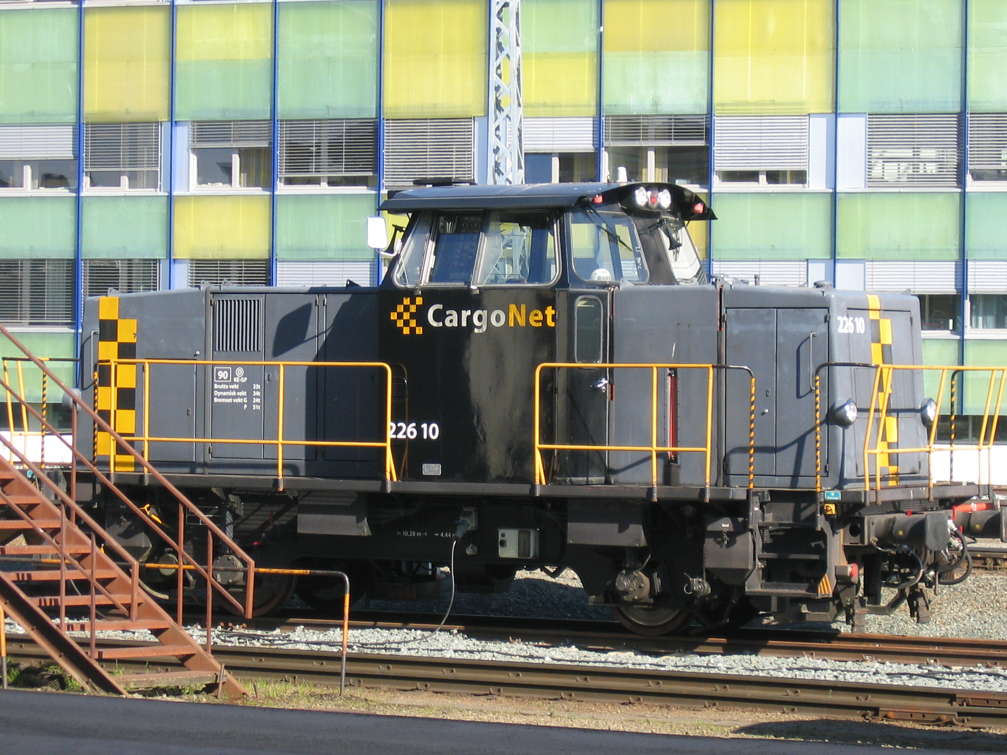 A diesel shunter type CargoNet Skd 226 10 at Trondheim station in Norway